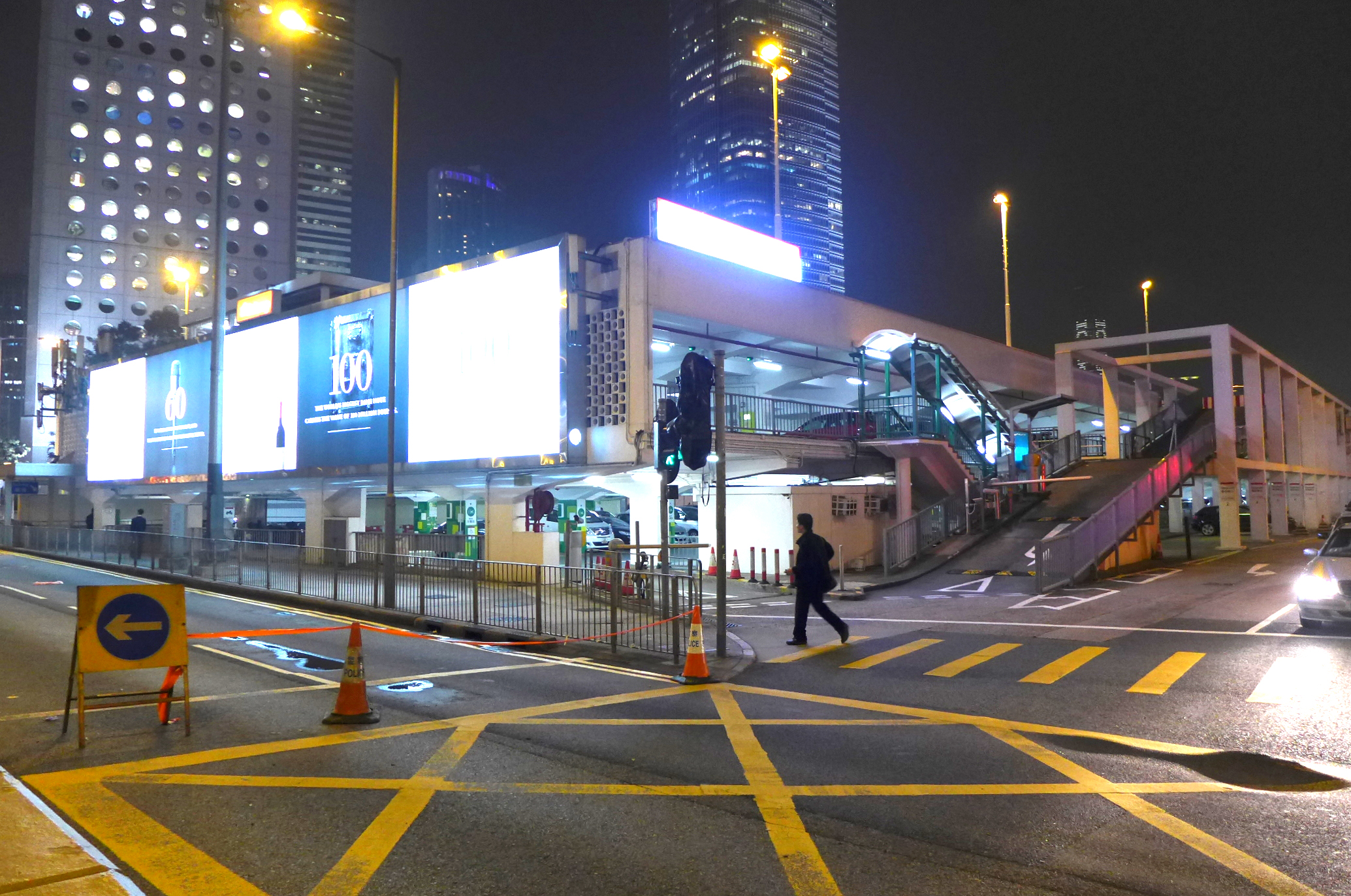 Star Ferry Car Park